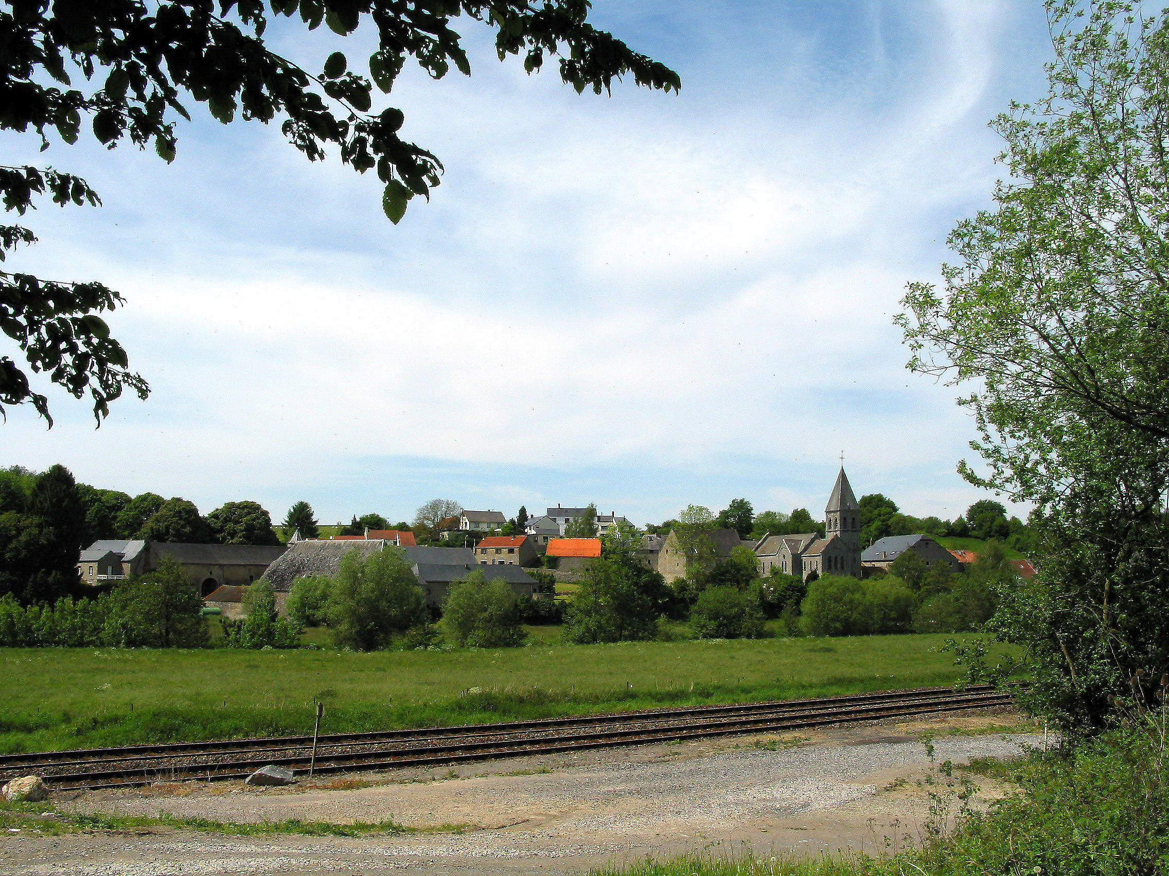 Cour-sur-Heure (Belgium), the village and his big fortified farm.